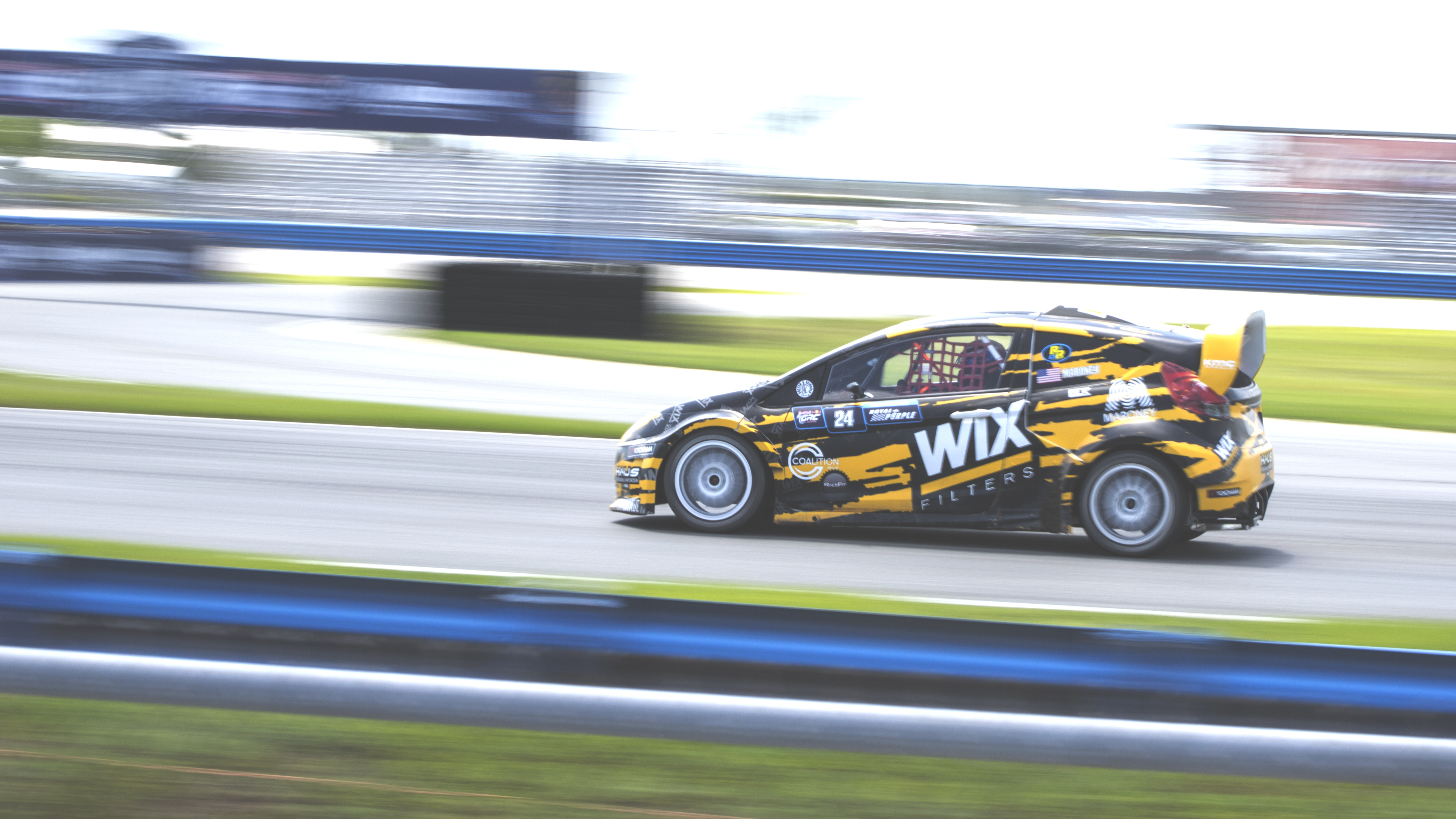 Miles Maroney driving a Ford Fiesta during the 2nd round of Red Bull GRC Lites Daytona 2015